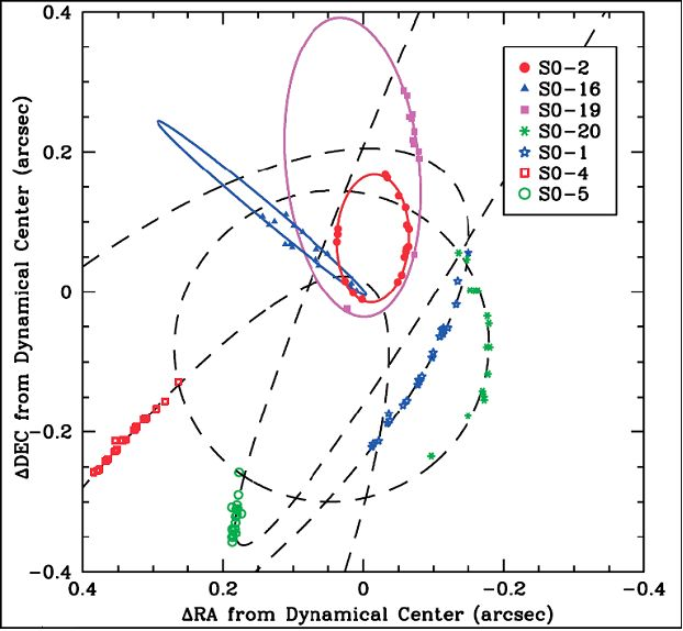 S Stars